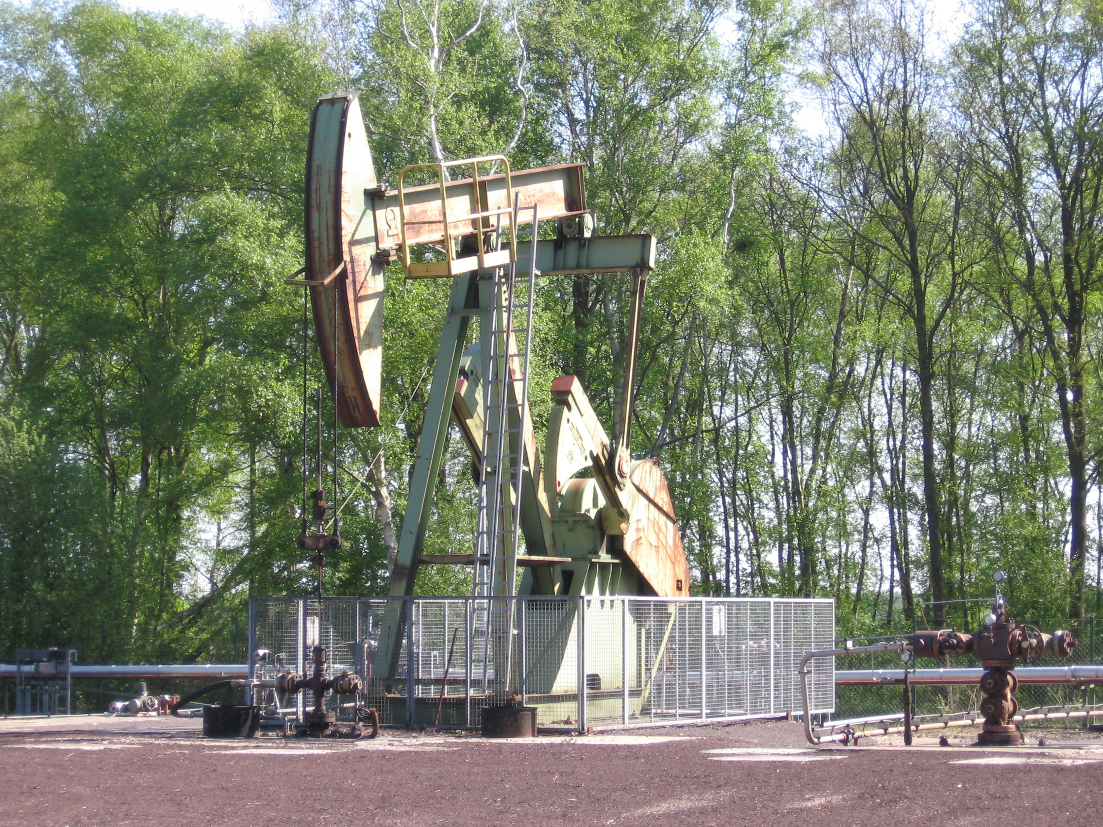 Oil pump in the German municipality Twist